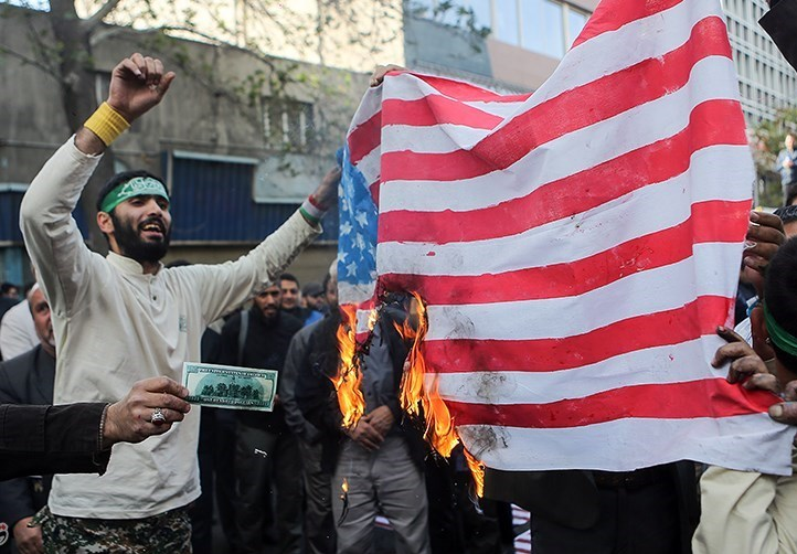 Groups of people in Tehran attended a demonstration to condemn the US hostile policies and mark the anniversary of the American Embassy takeover back in 1979.